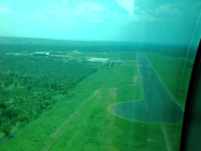 Aeriall View of Rajahmundry Airport